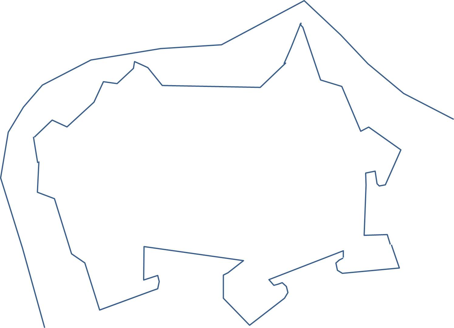 Schematic map of Fortezza, Rethymnon, Crete